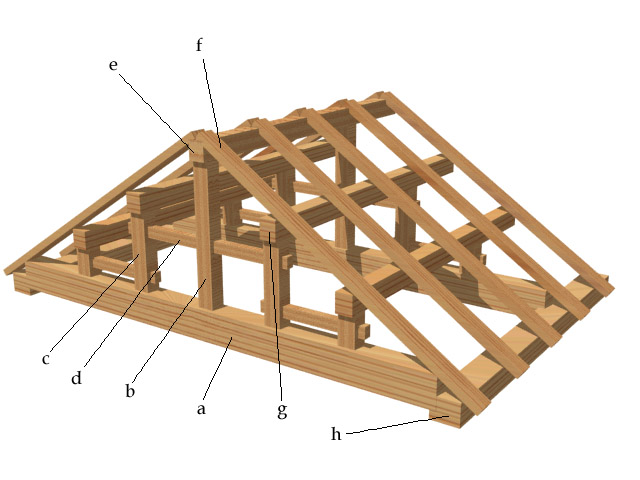 wagoya, roof structure in Japanese traditional style.